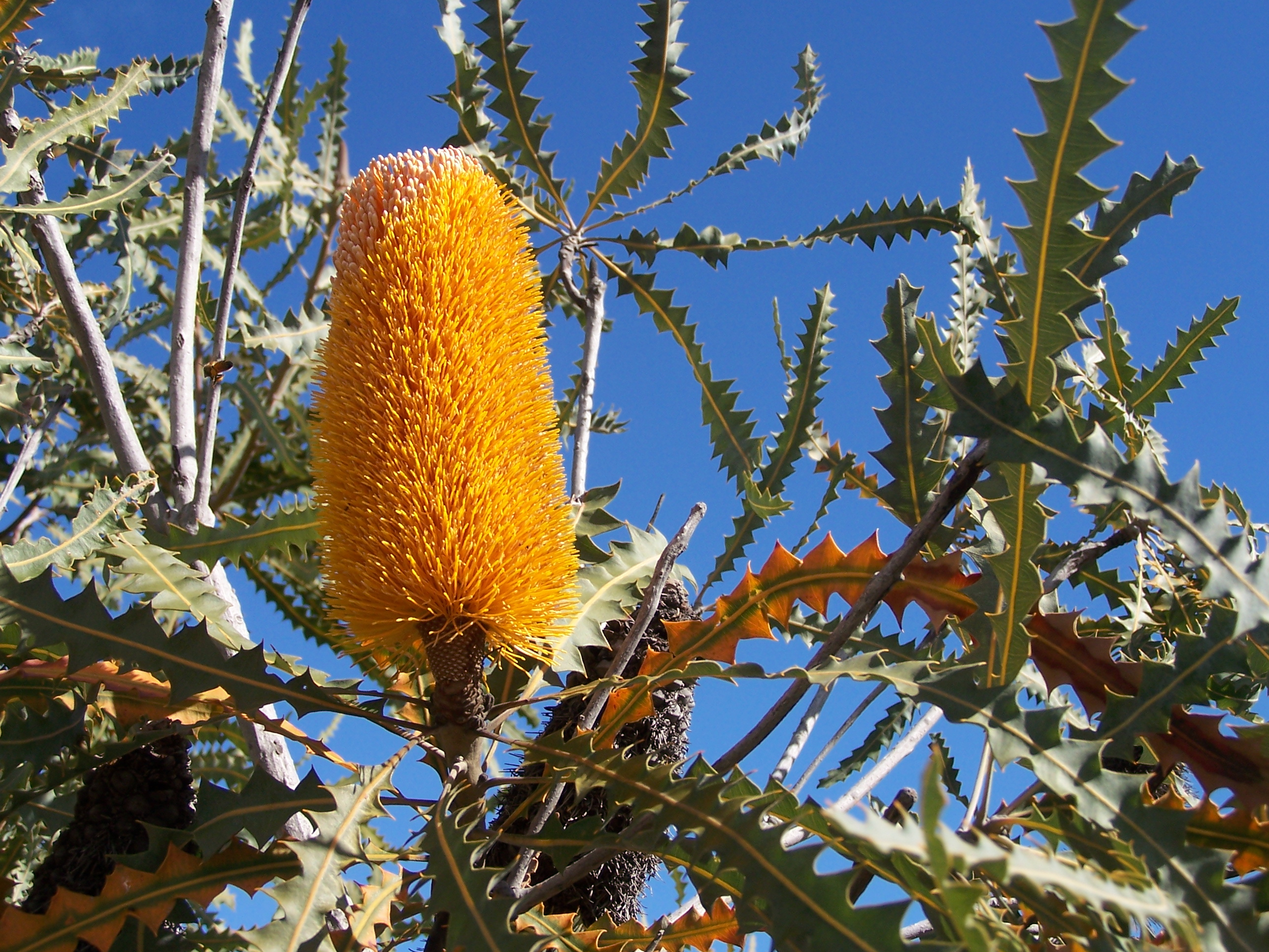 Banksia ahsbyi, street planting on verge and island South street Bullcreek WA